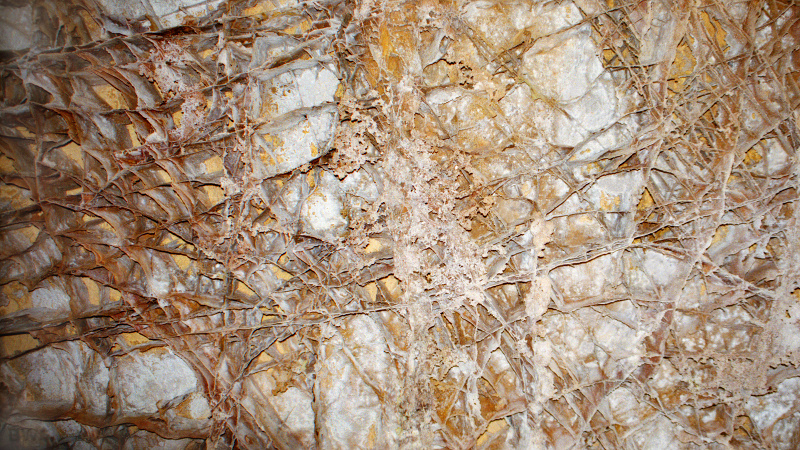 Wind Cave National Park, South Dakota, USA - boxwork on cave ceiling.